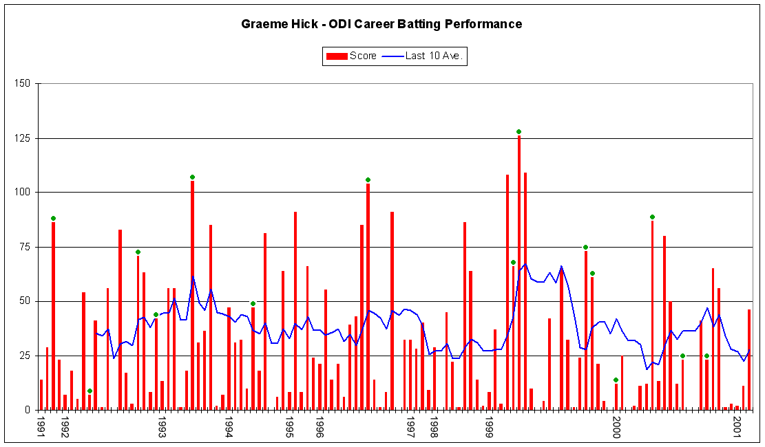 Graeme Hick ODI Career Batting Performance graph